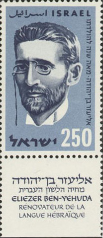 A stamp depicting Eliezer Ben-Yehuda, reviver of the Hebrew language.